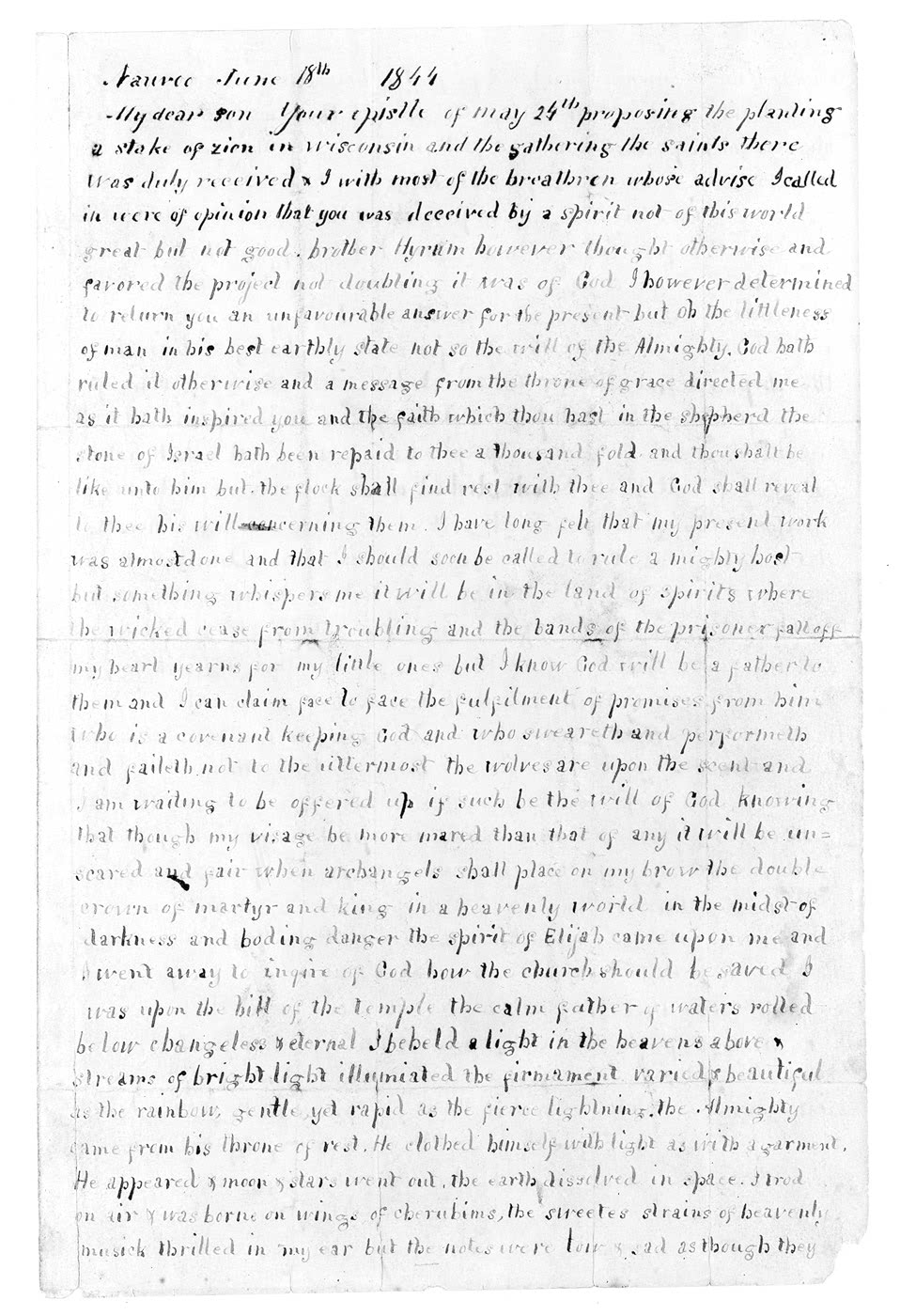 Image in public domain, not copyrighted, per Dale Broadhurst, owner of website on which they are found